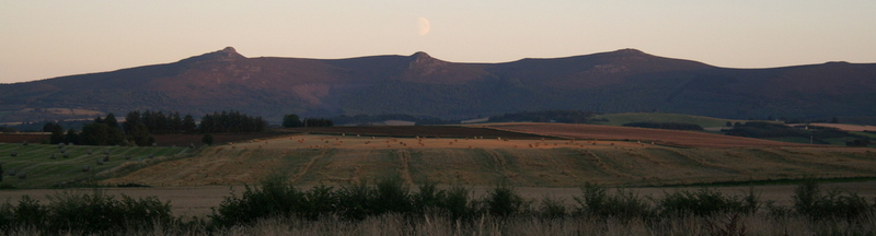 Bennachie from the North, taken from AB526UX looking South. Tops are from left to right: Mither Tap, Craigshannoch, Bruntwood Tap, Oxen Craig, Watch Craig.